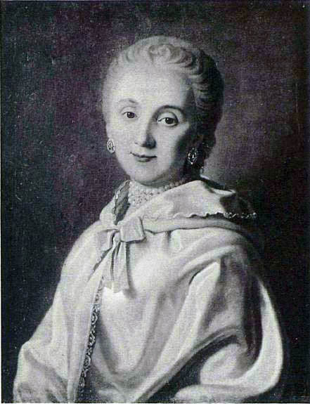 Portrait of Maria Stroganova